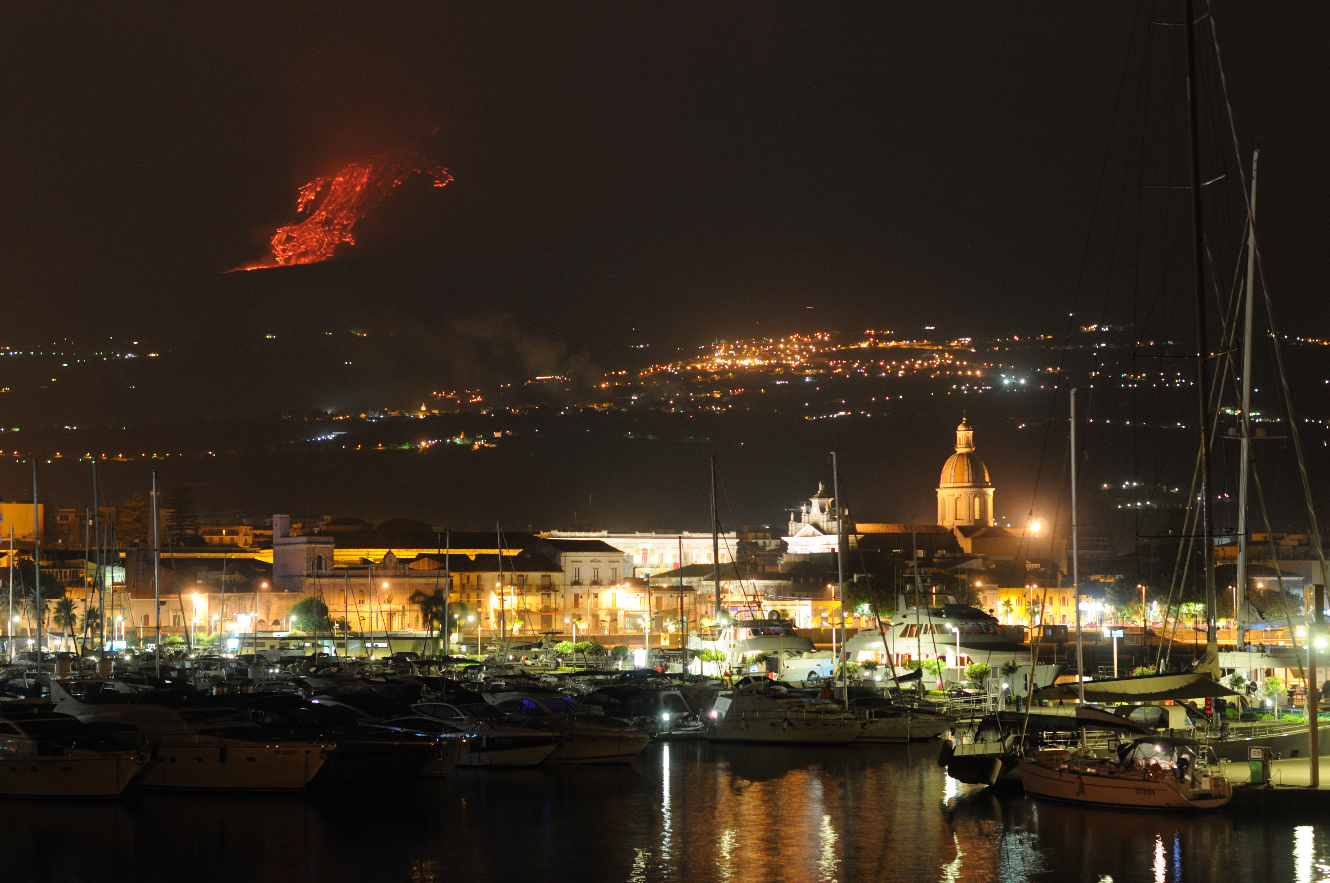 Mount Etna, Sicily